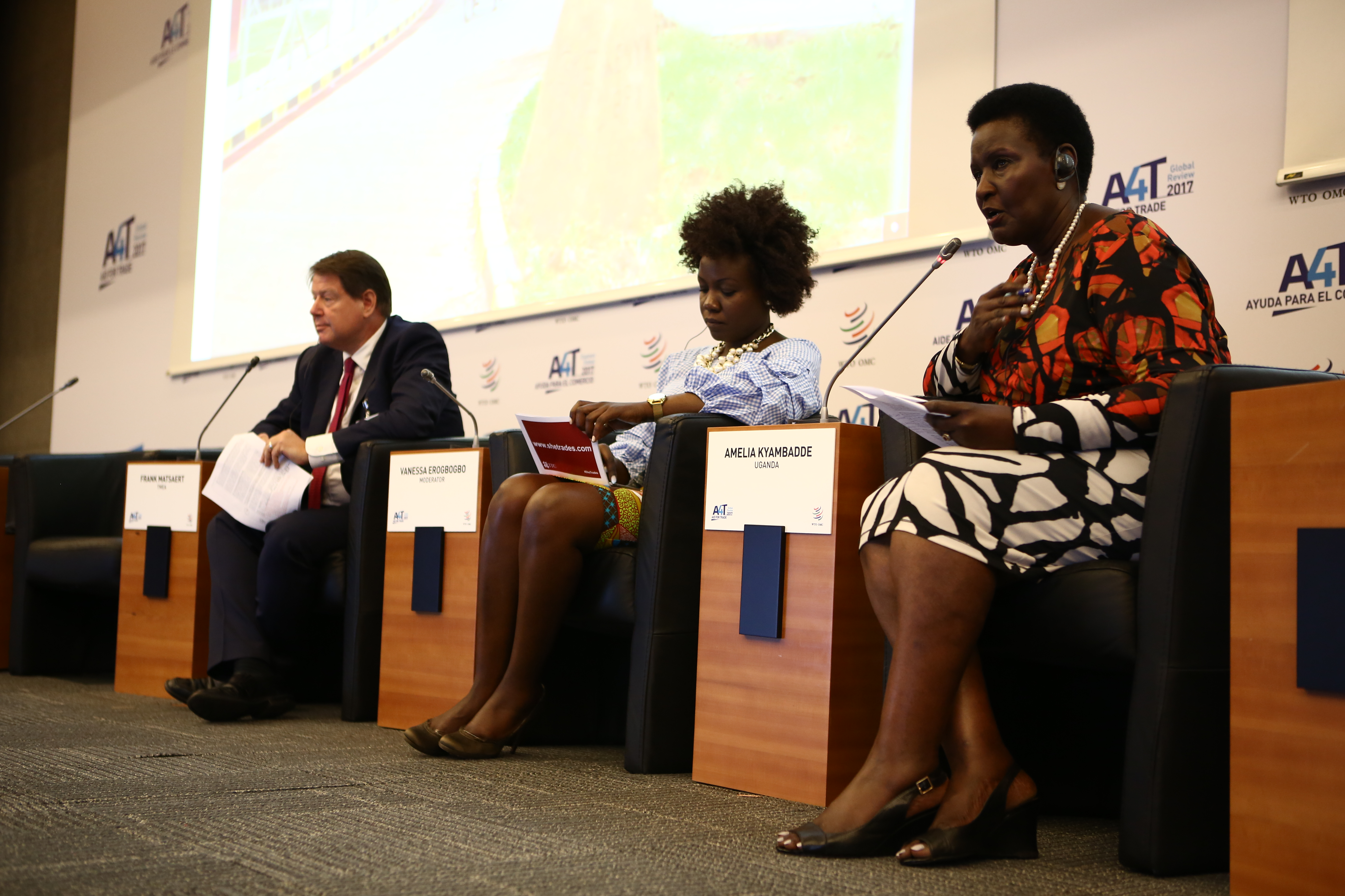 Frank Matsaert, Vanessa Erogbogbo and Amelia Kyambadde Photos from the WTO Aid for Trade Global Review 2017 photo gallery may be reproduced provided attribution is given to the WTO and the WTO is informed. Photos: © WTO/Jay Louvion